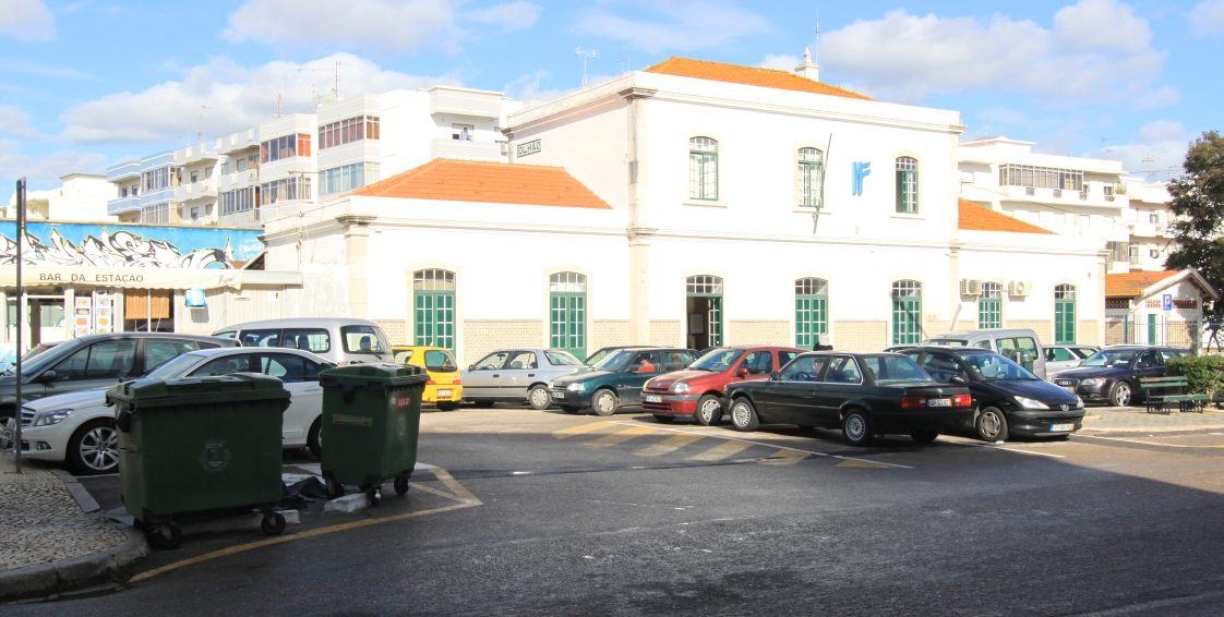 Olhão railway station, front